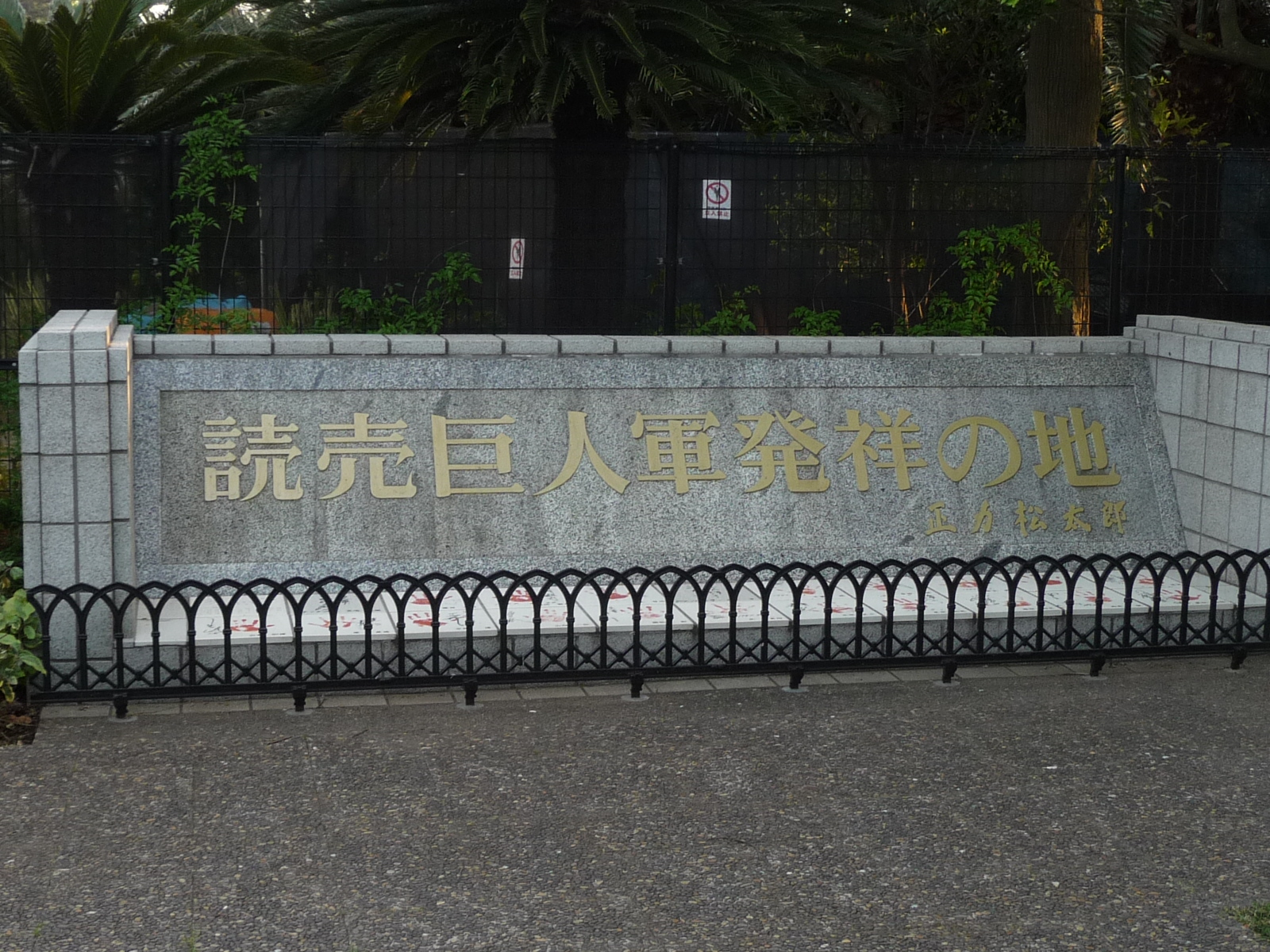 Cradle place stele Yomiuri Giants at beside of Yatsu rose garden, Narashino Chiba